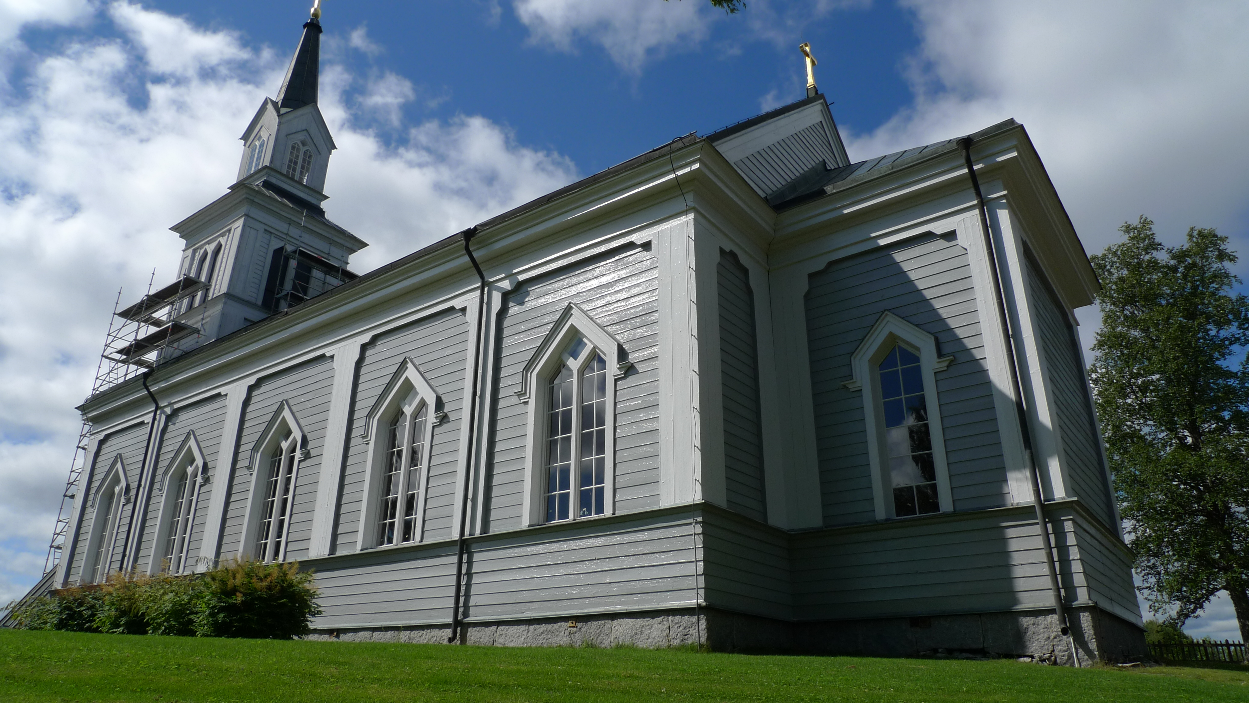 The church in Hamra did during the summer 2010 get a new grey facade. The former color was white.